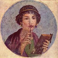 Tondo of Woman with wax tablets and stylus (so-called "Sappho"), National Archaeological Museum of Naples (inventory no. 9084). Roman fresco of about 50, from Pompeii (VI, Insula Occidentalis) - Discovered in 1760, is one of the most famous and beloved paintings, commonly called Sappho. Actually portrays a high-society Pompeian girl, richly dressed with gold-threaded hair and large gold earrings, bringing the stylus to the mouth and holding the wax tablets, notoriously accounting documents which therefore have nothing to do with poetry and even less with the famous Greek writer.